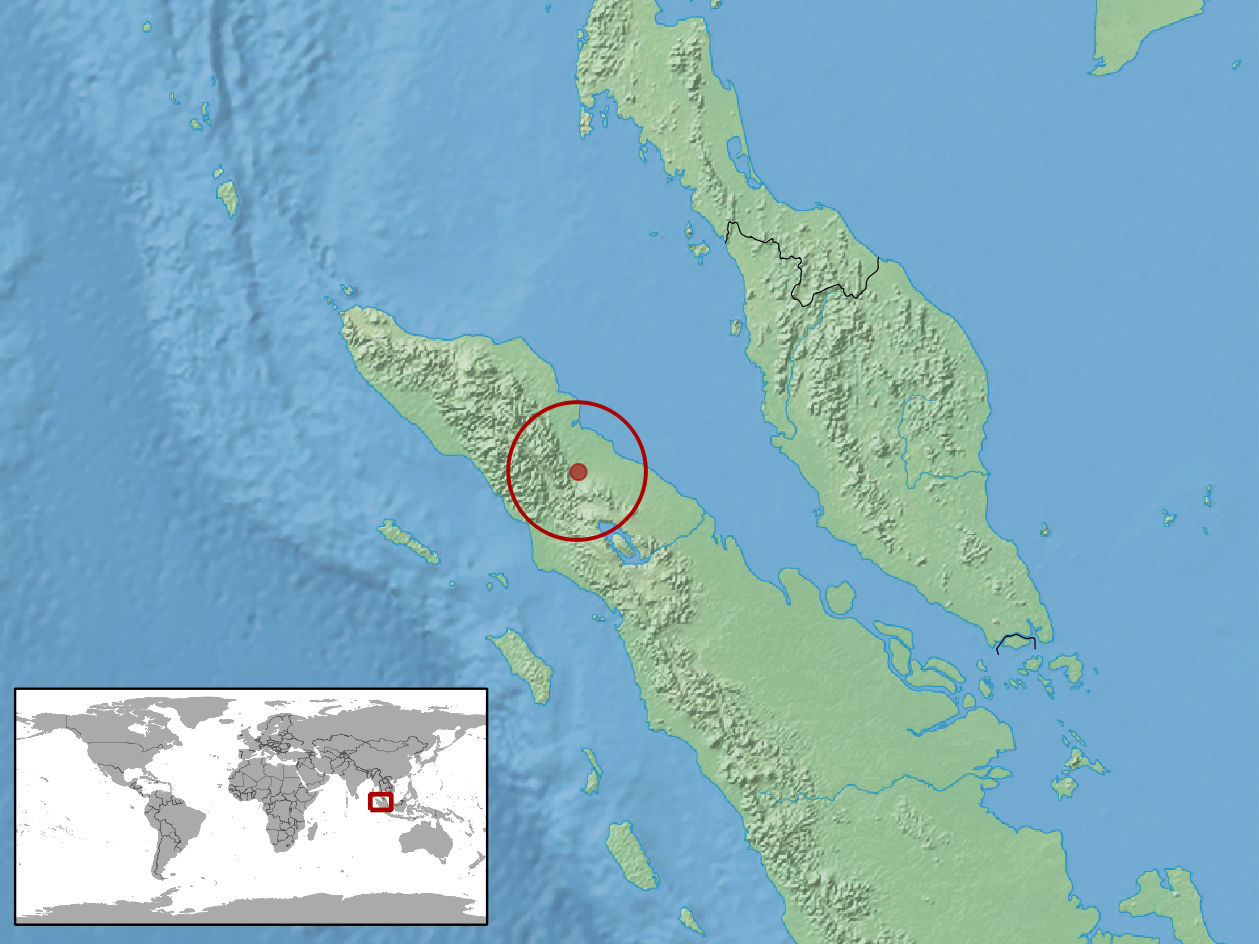 geographic distribution of Calamaria doederleini (Native: Indonesia (Sumatera))